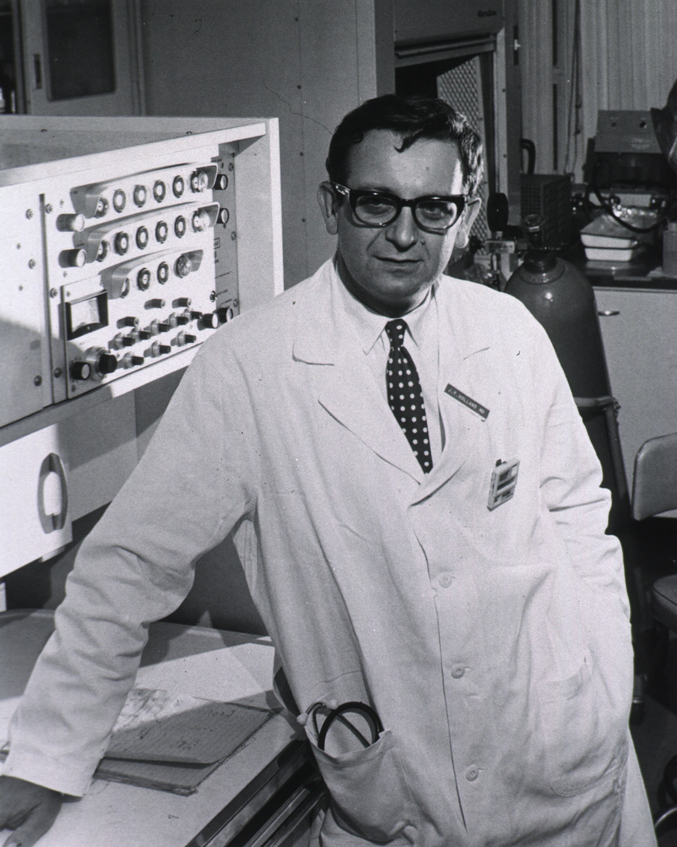 James Holland, a renowned cancer expert who was a major figure in the development of cancer chemotherapy, died on March 22, 2018, at the age of 92. Dr. Holland was among the first group of research physicians recruited to the NIH Clinical Center, serving as a senior surgeon at the National Cancer Institute from 1953 to 1954. In that short year at the NIH, he initiated a clinical trial to compare continuous or intermittent treatment with two chemotherapy agents for acute leukemia in children: methotrexate and 6-mercaptopurine. Photo courtesy: National Library of Medicine: : Image ID: B09668